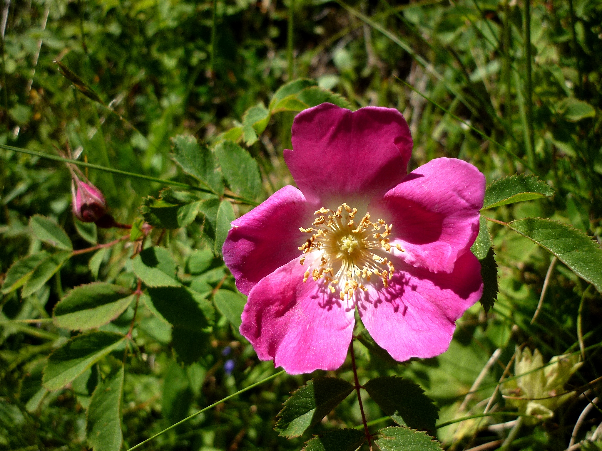 Rosa pendulina. In Estana (Baixa Cerdanya-Catalunya). To 1.780 m. altitude